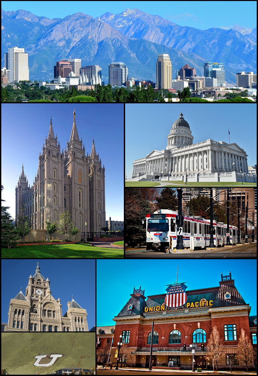 A montage of various Salt Lake City photos found in Wikimedia Commons.